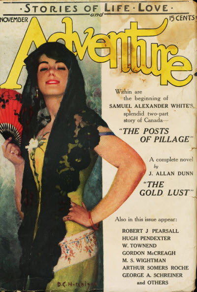 Cover of Adventure, vol. 11 no. 1 (November 1915).